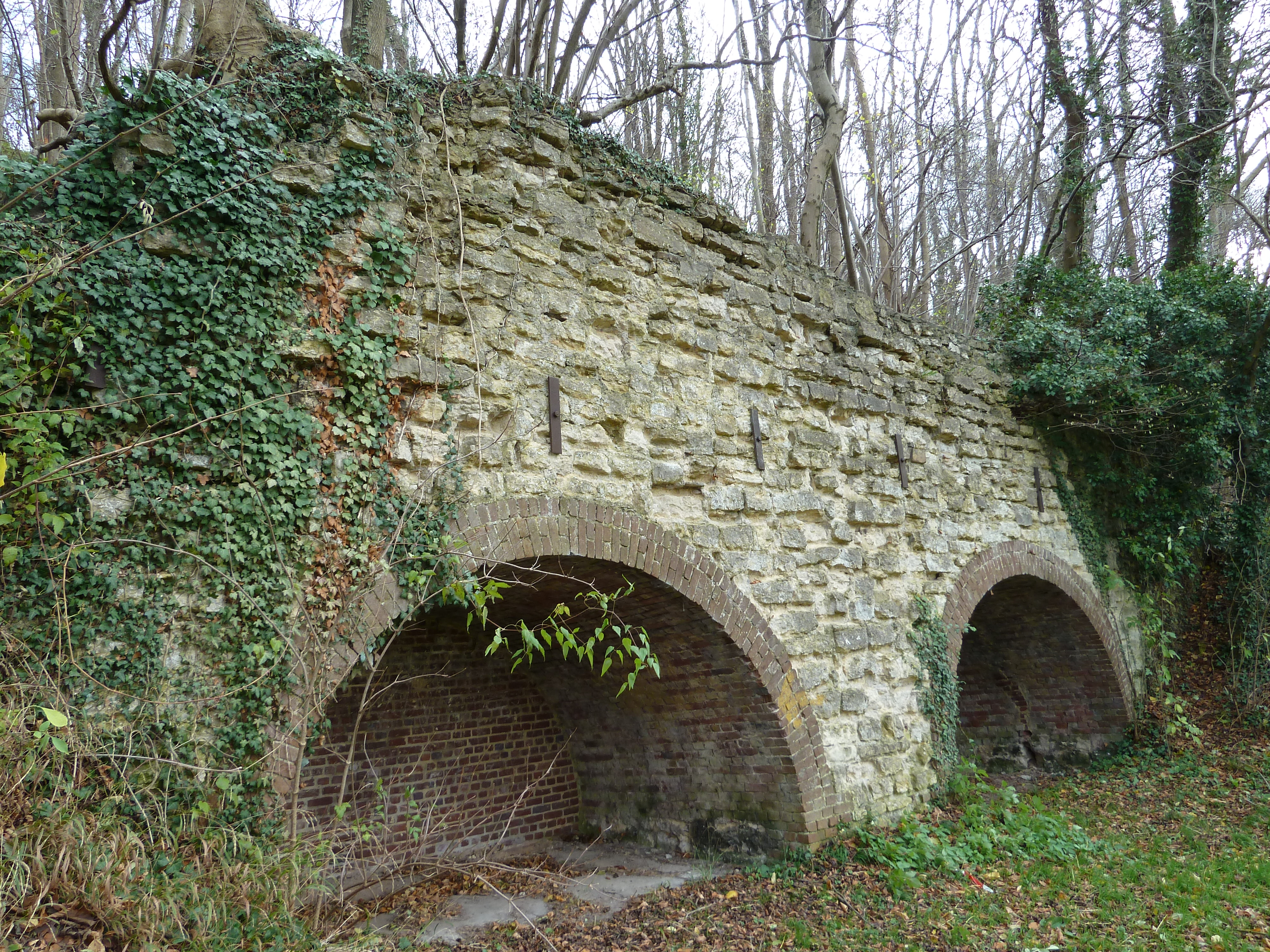 Chalk burners eastside Daelsweg, Ubachsberg, Limburg, the Netherlands